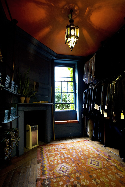 Inside Timothy Everest's Spitalfields, London, atelier